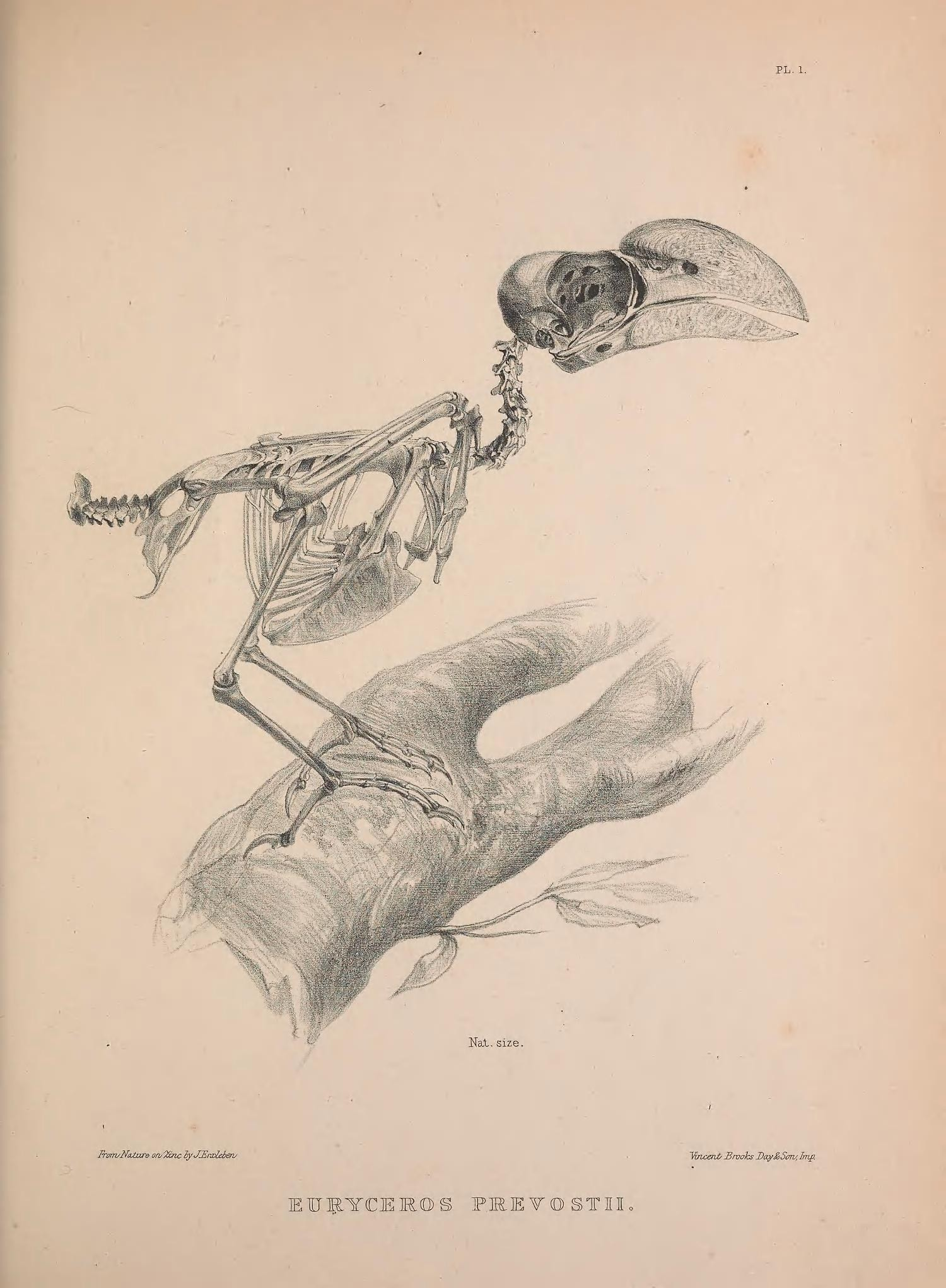 Nat. size. FromsNttfure oivTmc by -JJEnzleien/ ~Vuzc&it. Broohs I)ay&S(ms l Imjp. EIRYCER(0)§ PJRETOSTII